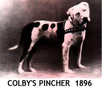 Colby's Pincher, 56 lb (25 kg) when conditioned, was named "The greatest fighting dog that ever lived". Almost all of the current Amstaff and APBT stock have Colby's Pincher in their pedigree.